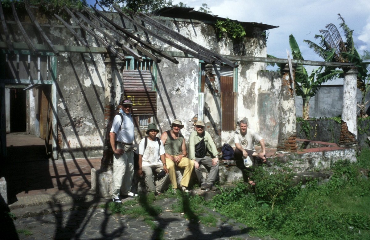 Picture of the house in which Alfred Russel Wallace stayed from 1858-1861